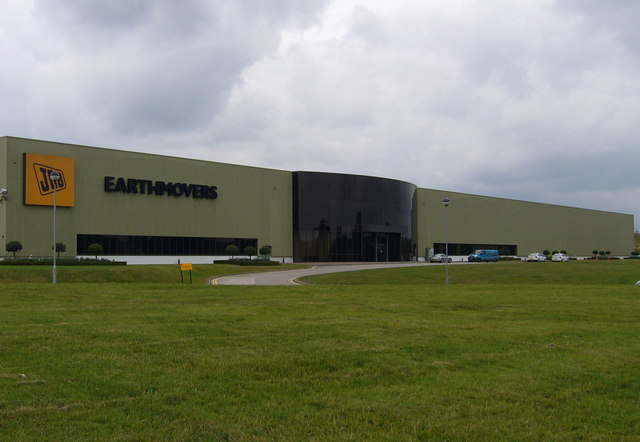 JCB Earthmovers. factory off Leek Road just north of Cheadle.